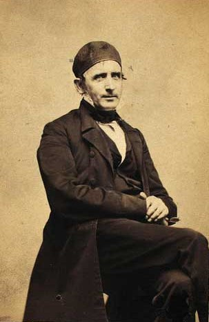 Didrik Ferdinand Didrichsen (1814-1887), Danish botanist and physician